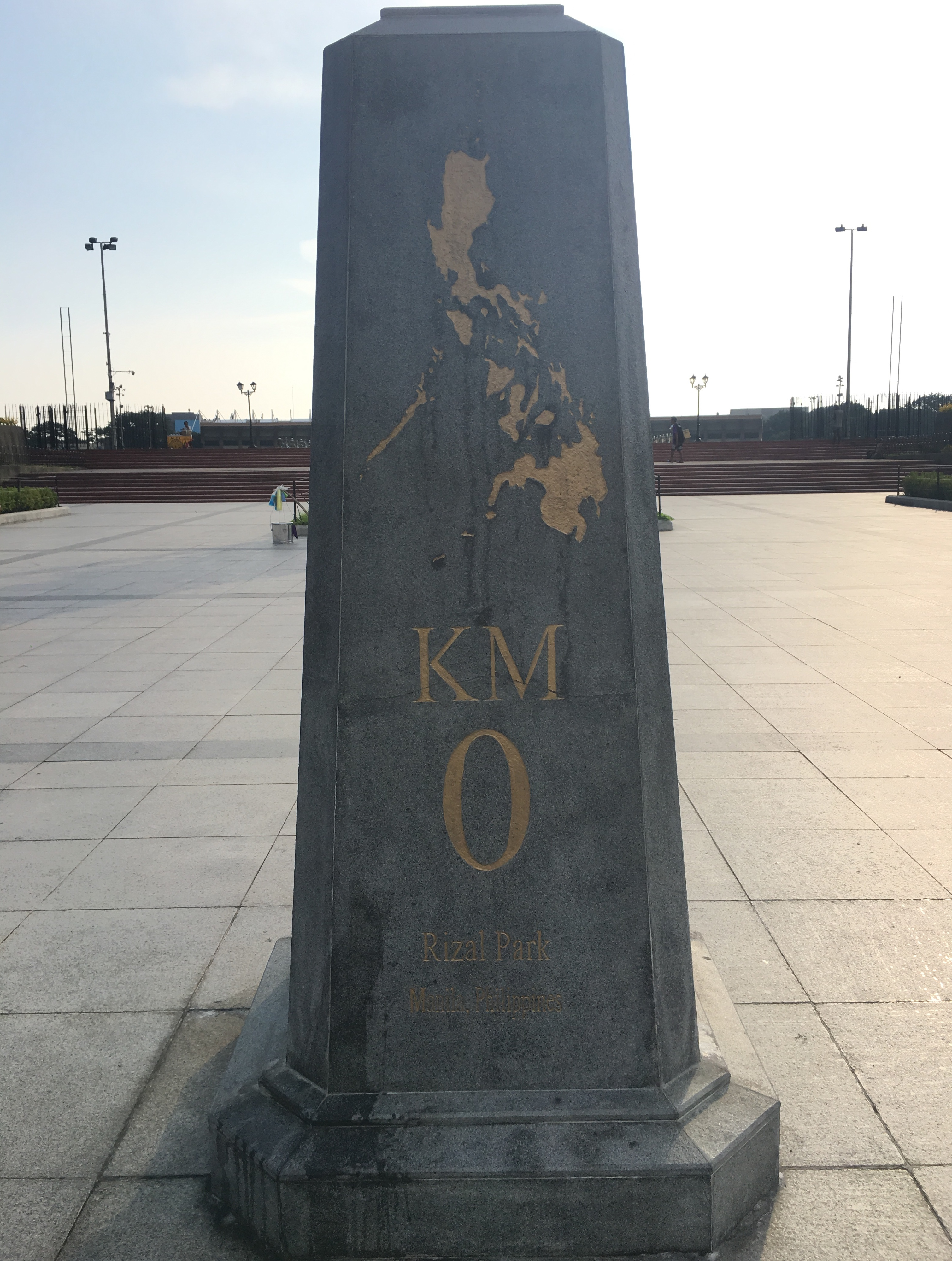 Philippine kilometre zero located in Rizal Park, Ermita, Manila